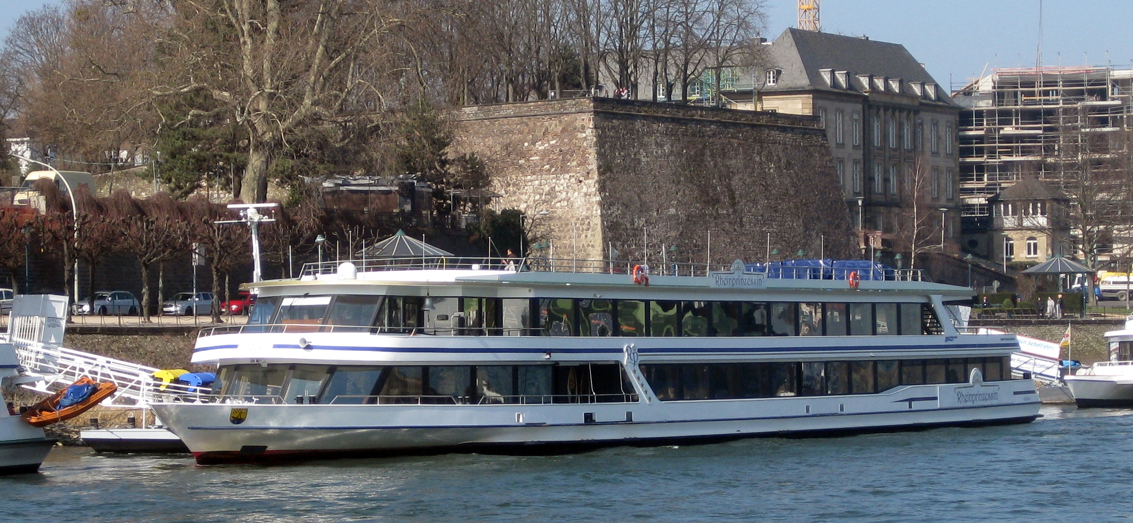 Bonn, Passenger ship "Rheinprinzessin" on the Rhine river.